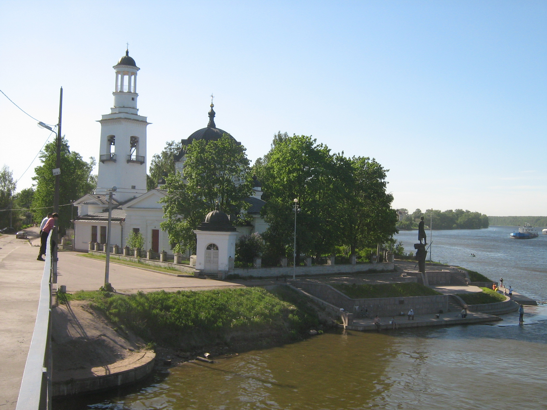 Ust-Izhora (Russia), St. Alexander Nevsky church at the confluence of Neva River and Izhora River.